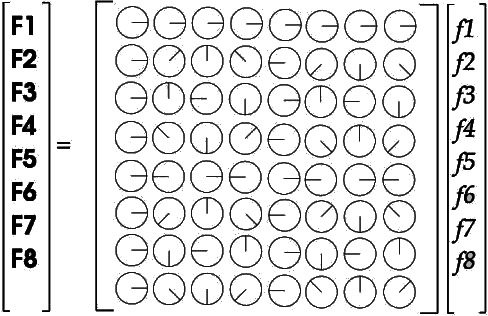 A visualization of the Discrete Fourier Transform for n=8. The vector exp({i}*2*pi*jk/n) is represented as a unit vector in the complex plane.